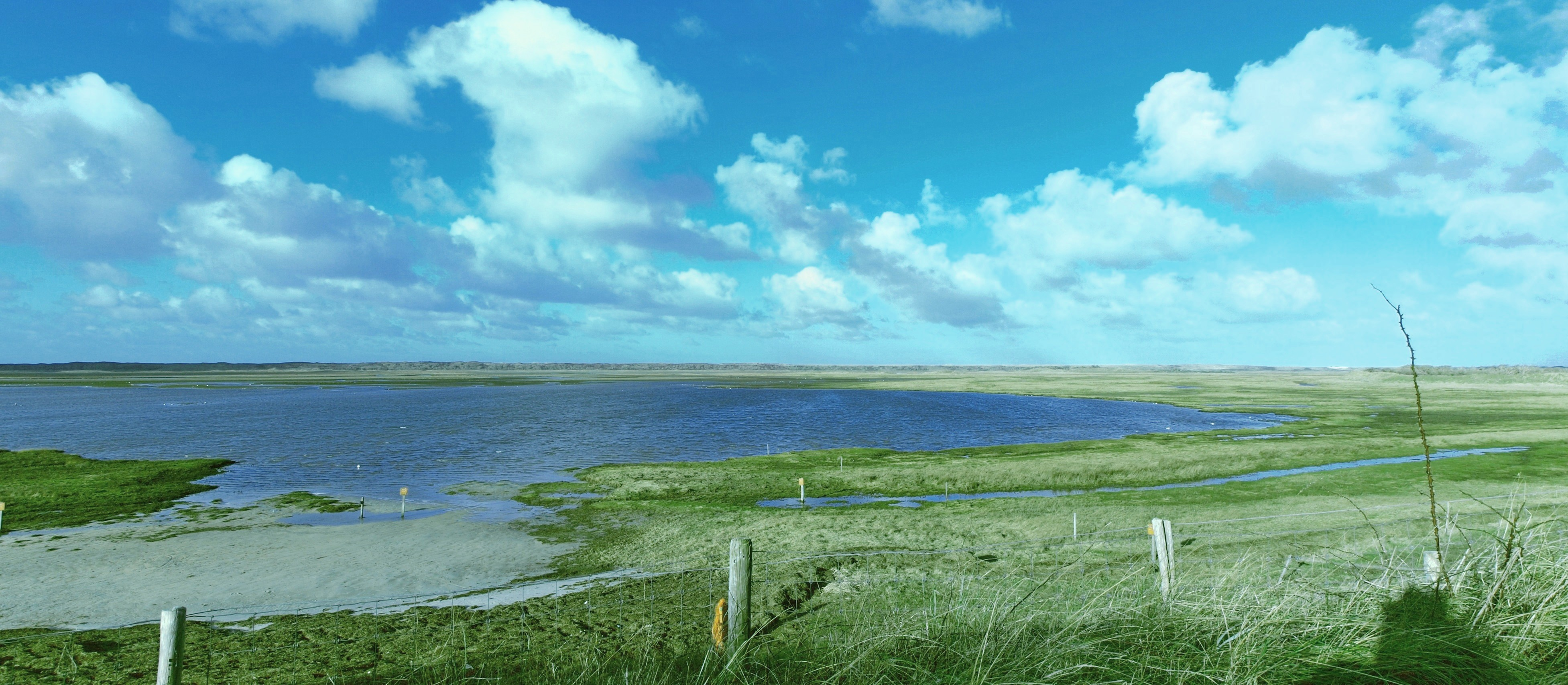 De Slufter on Texel, Nl. - from the viewpoint near the Oorsprongweg